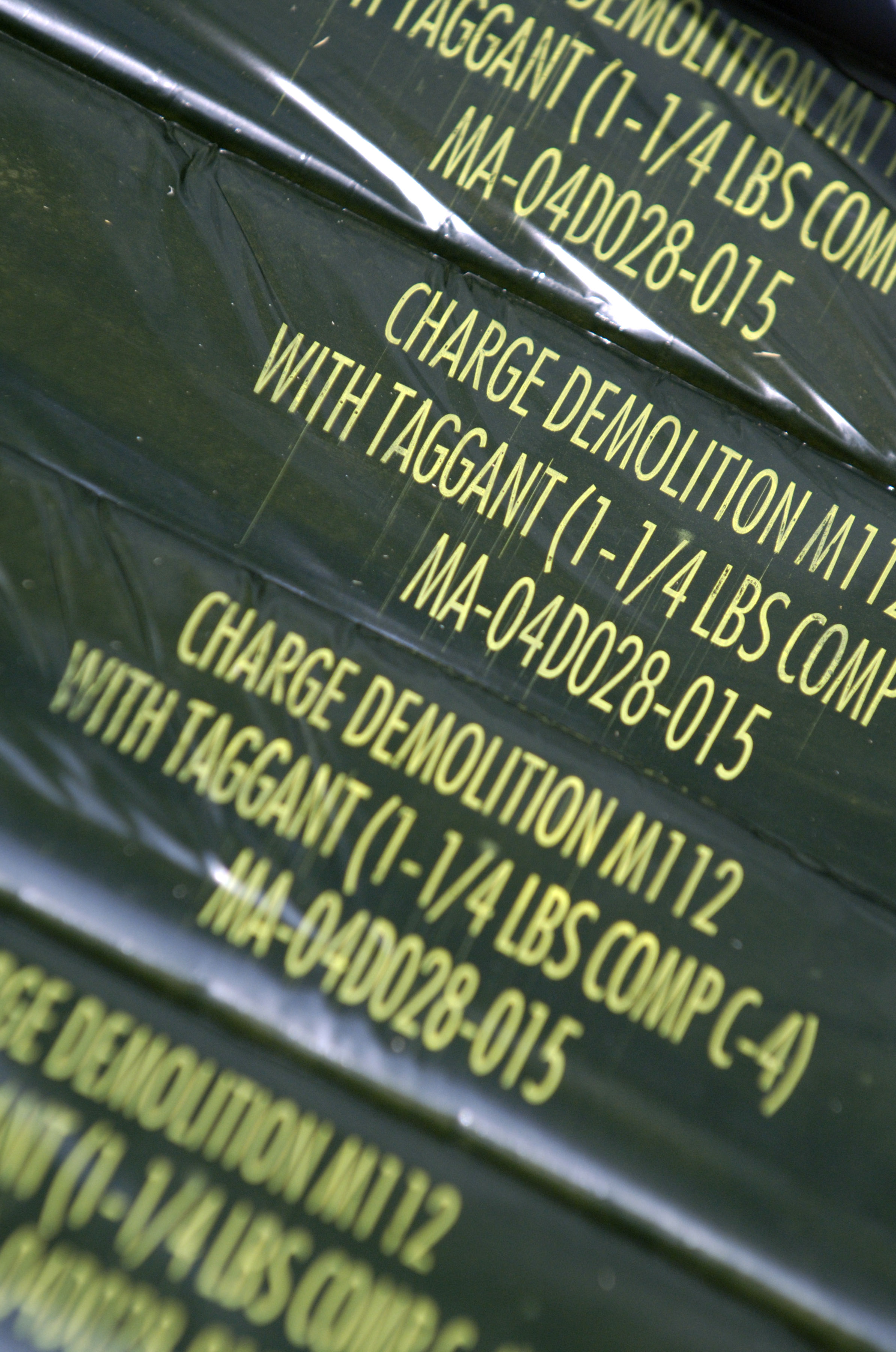 U.S. Air Force explosives ordnance disposal specialists living on and working out of Forward Operating Base Mehtarlam in Afghanistan's Laghman Province, conduct a controlled detonation, Sept. 1, 2007. They destroyed approximately 900 pounds of small-arms ammunition, rocket propelled grenades and mortars turned in by provincial citizens under the small arms for rewards program. U.S. Air Force photo by Master Sgt. Jim Varhegyi